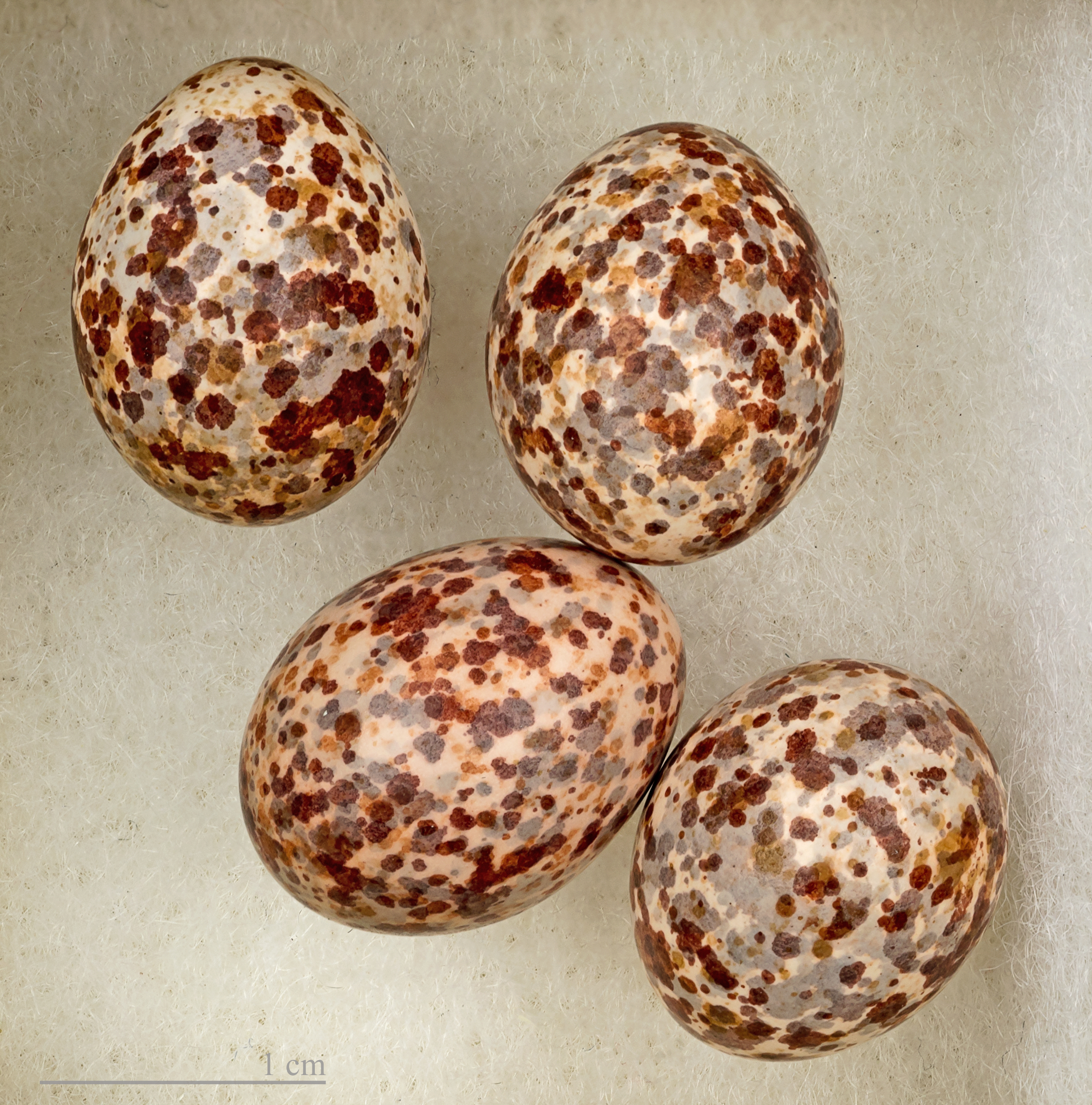 Egg of Cisticola marginatus amphilectus (Winding cisticola) . Collection of René de Naurois/ Jacques Perrin de Brichambaut.